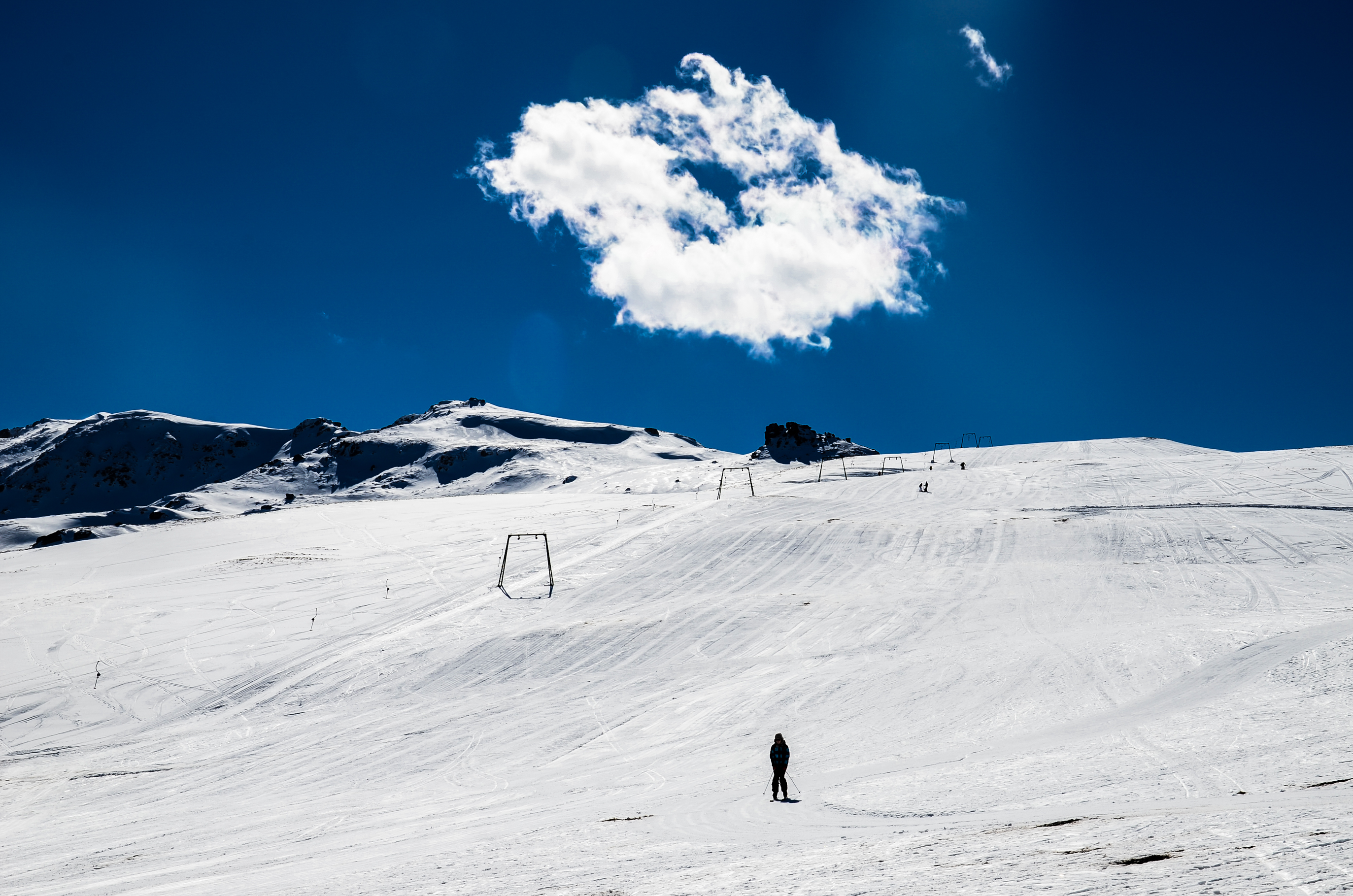 The best place for skiing in southern Kosovo